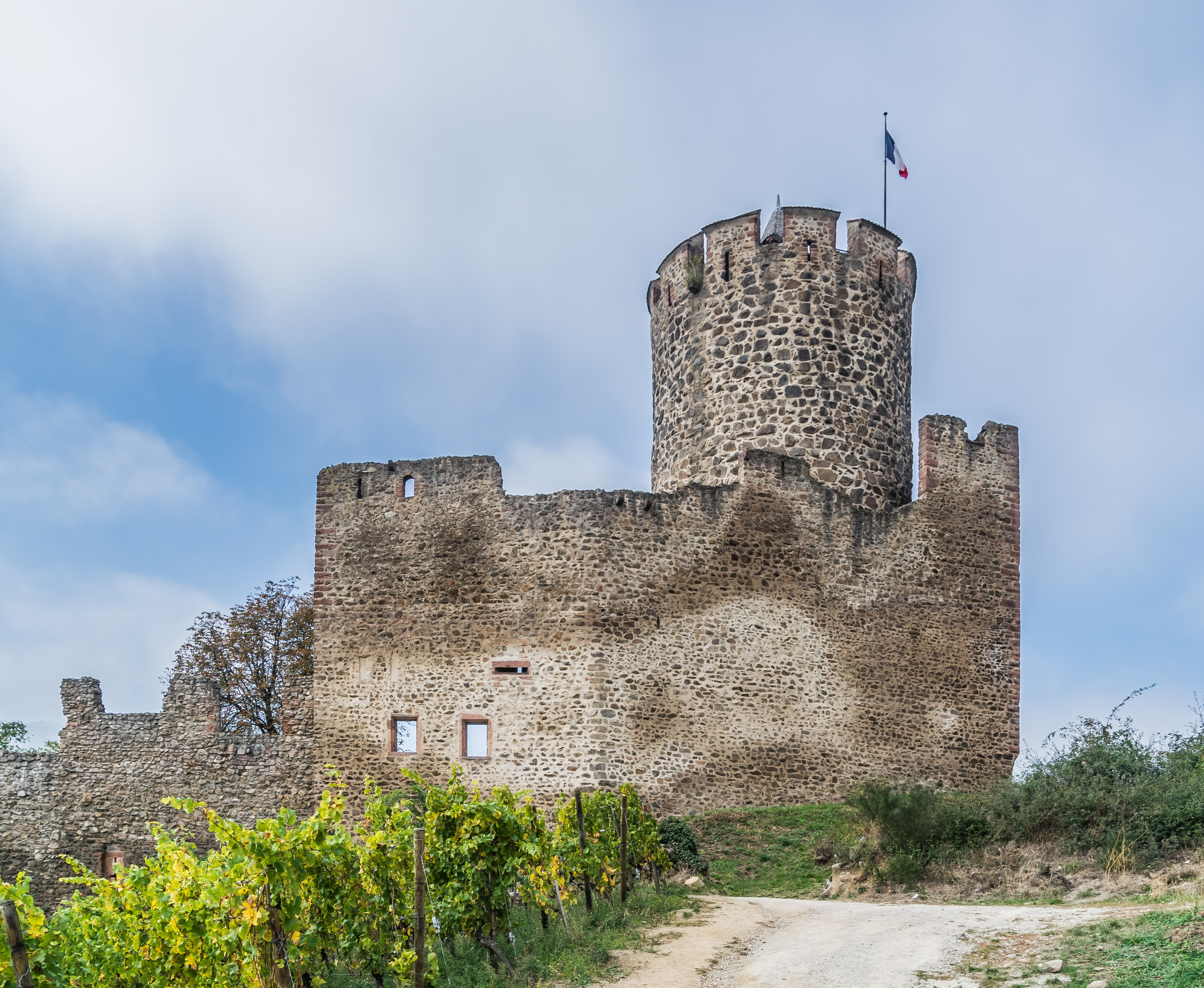 Castle of Kaysersberg, Haut-Rhin , France .